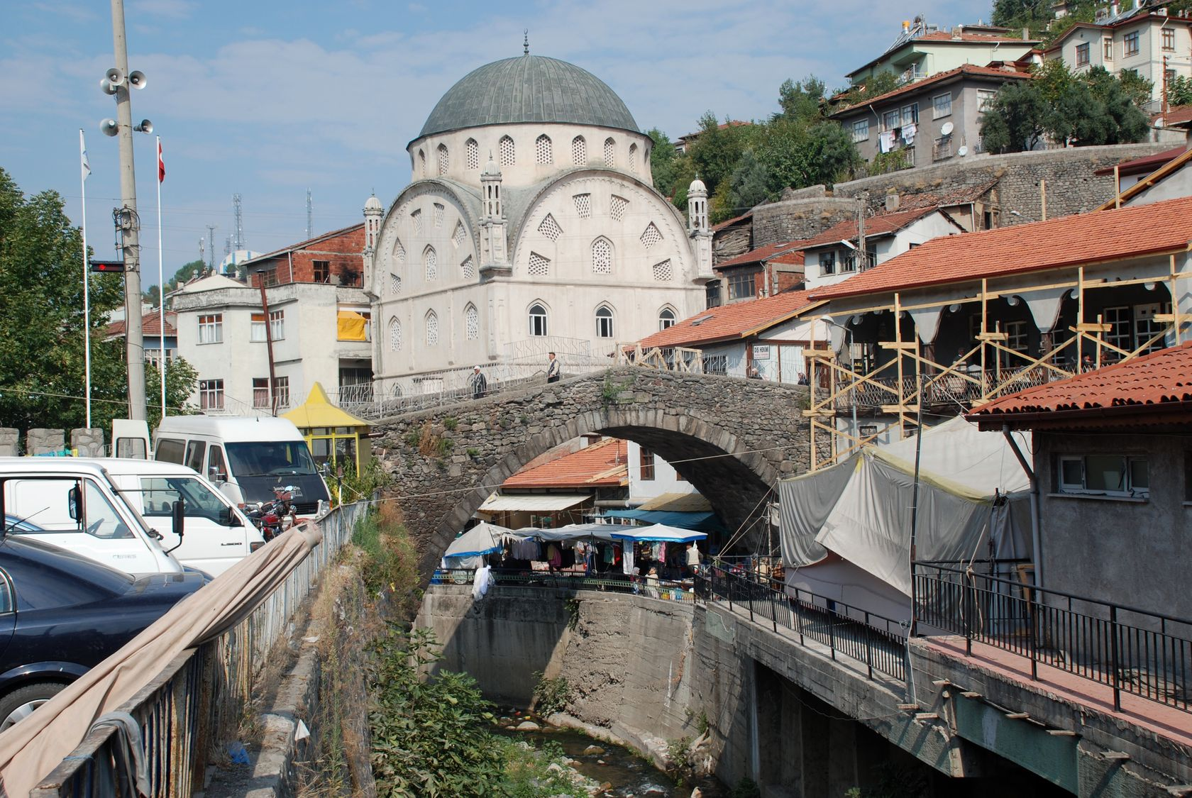 Niksar, Tokat province, city center